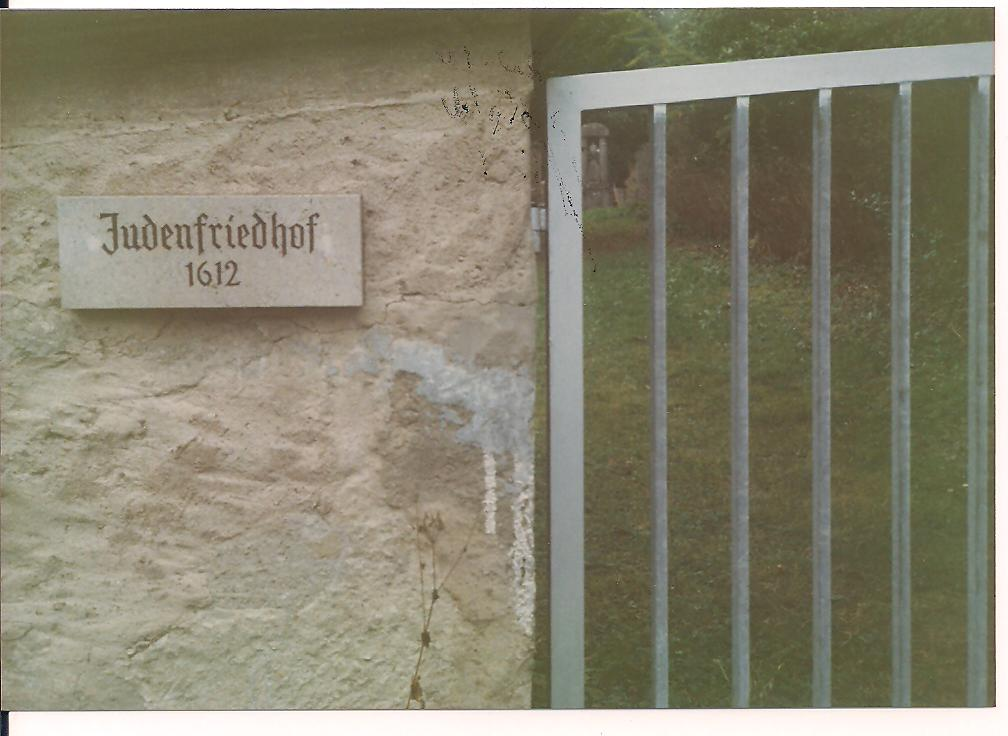 The jewish cemetery at Schopfloch, Germany